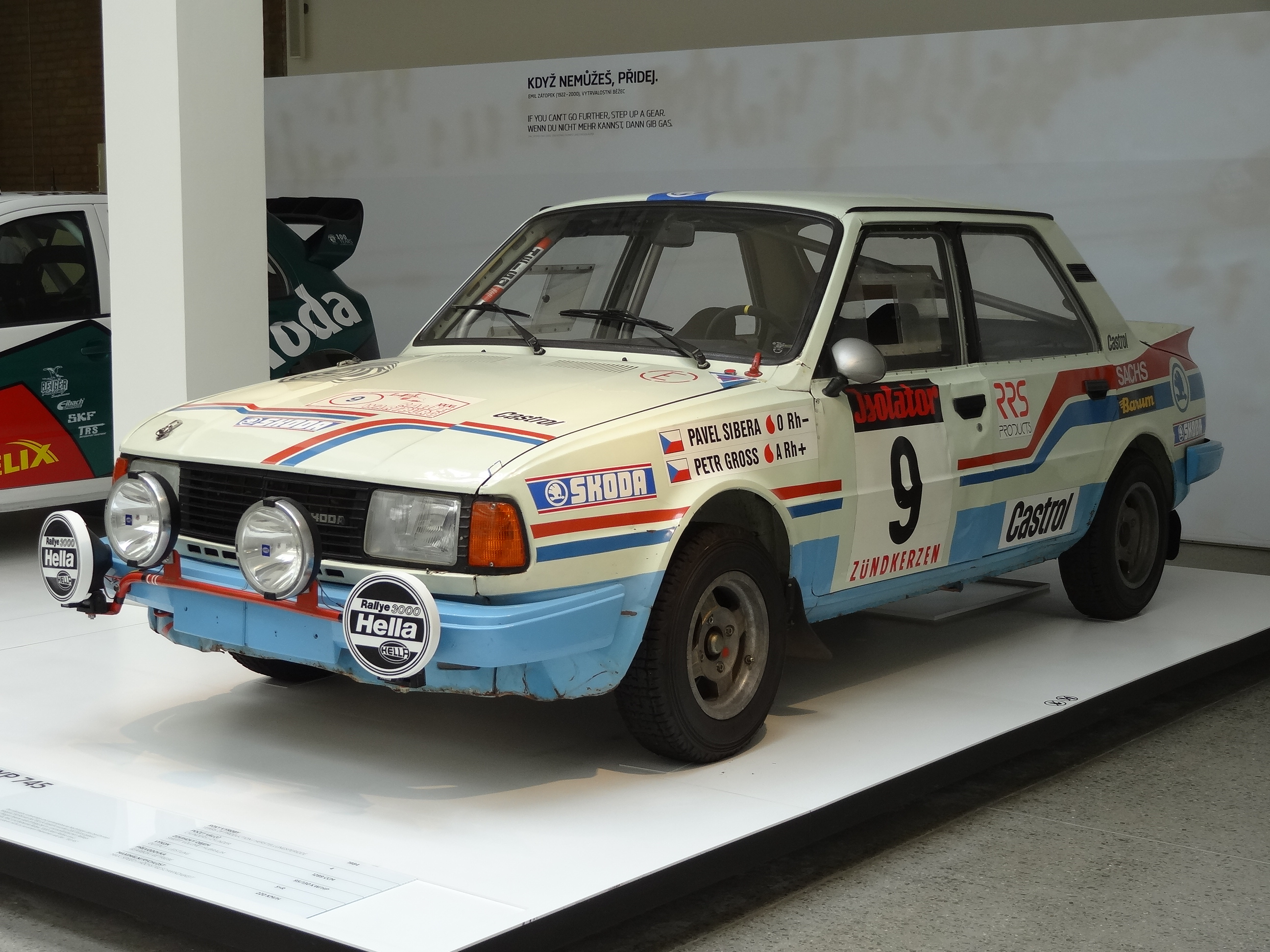 years of production: 1984, cylinders: 4, displacement: 1289 ccm, output: 95kw (130hp), gearbox: 5+R, max speed 220 km/h